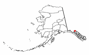 Adapted from Wikipedia's AK borough maps by Seth Ilys.